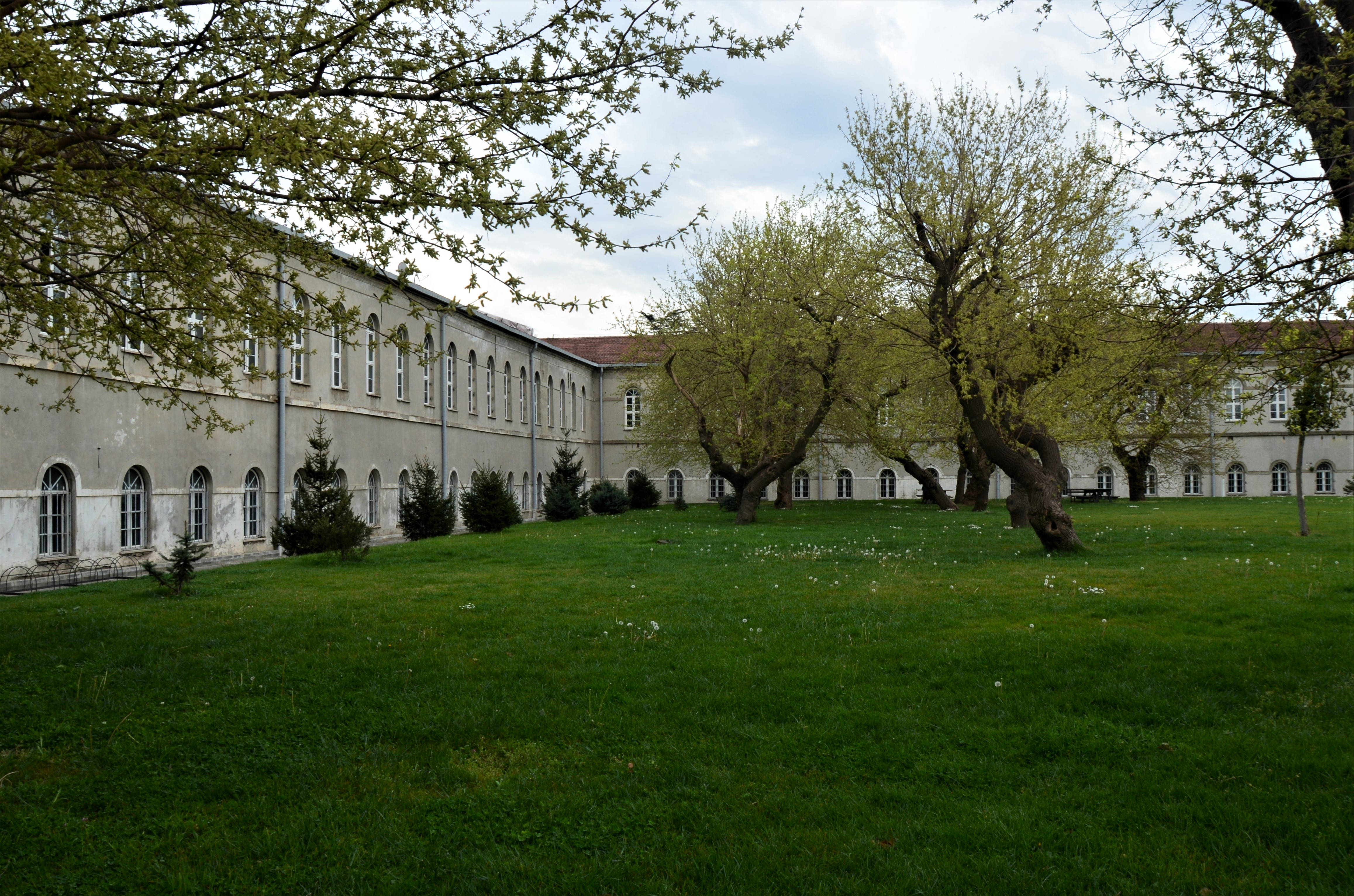 Eastern corner (seen from the courtyard) of the Davutpaşa Barracks at Yıldız Technical University campus, Istanbul.